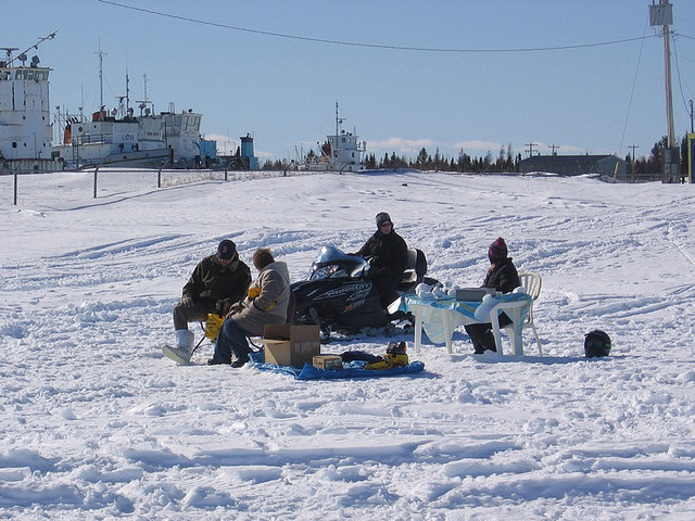 Rotary table